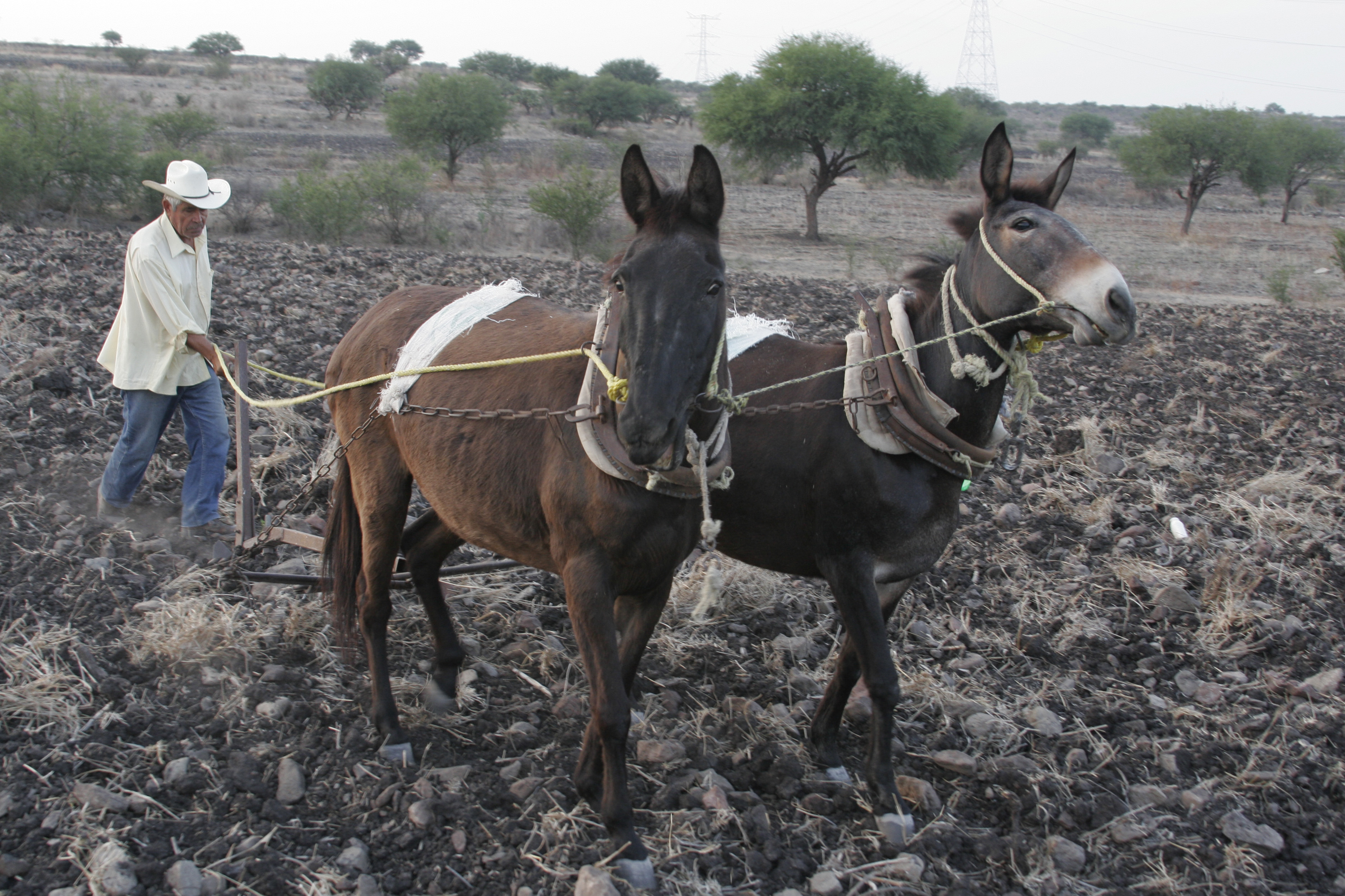 Corn Farmer, Guatemala.